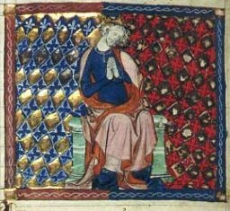 Henry I of England